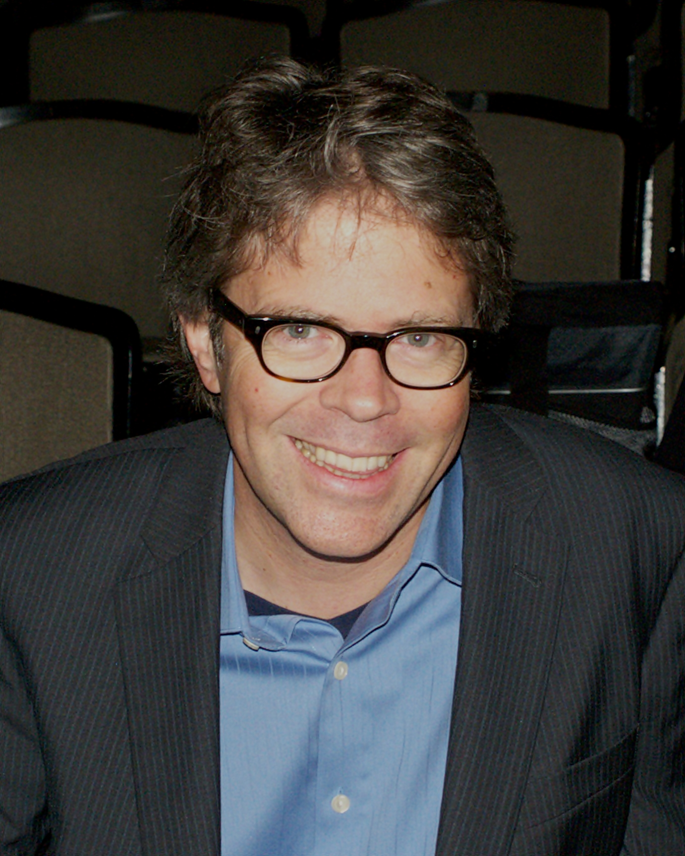 Jonathan Franzen at the 2010 National Book Critics Circle awards. Smith was nominated for the biography award.